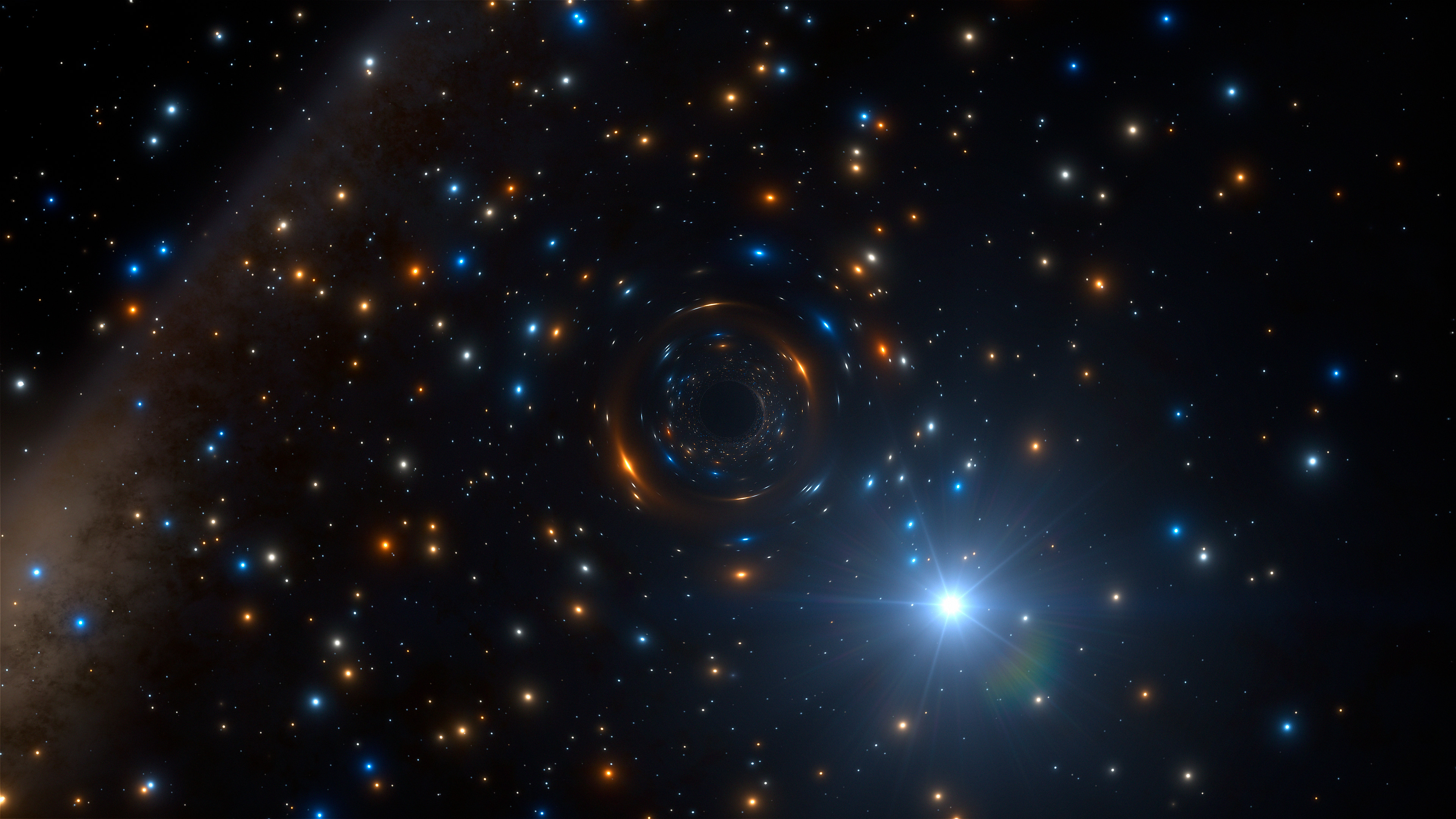 Astronomers using ESO’s MUSE instrument on the Very Large Telescope in Chile have discovered a star in the cluster NGC 3201 that is behaving very strangely. It appears to be orbiting an invisible black hole with about four times the mass of the Sun — the first such inactive stellar-mass black hole found in a globular cluster. This important discovery impacts on our understanding of the formation of these star clusters, black holes, and the origins of gravitational wave events.This artist’s impression shows how the star and its massive but invisible black hole companion may look, in the rich heart of the globular star cluster.